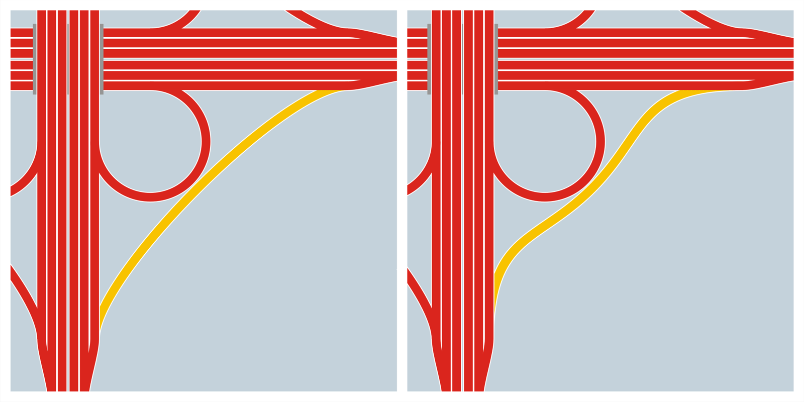 Tangent Ramp